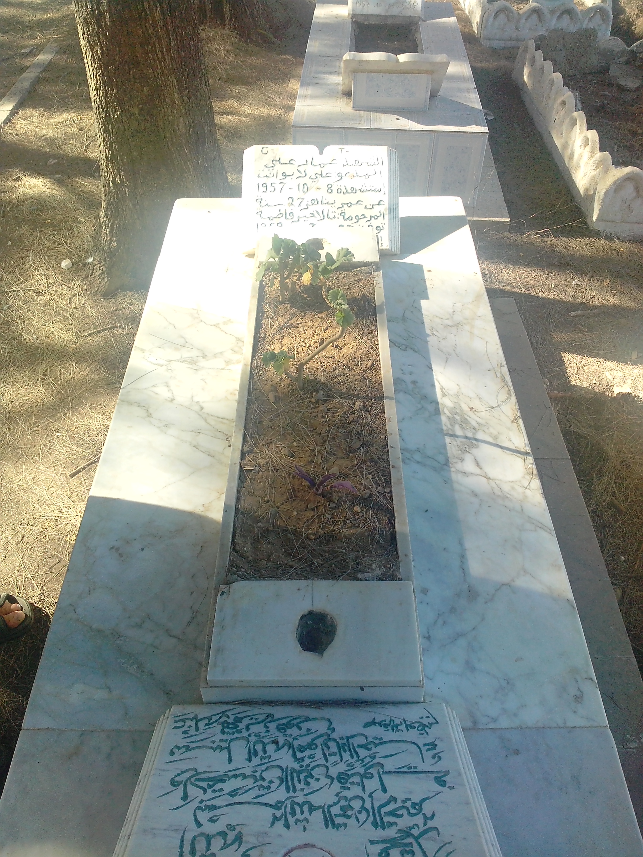 tombe